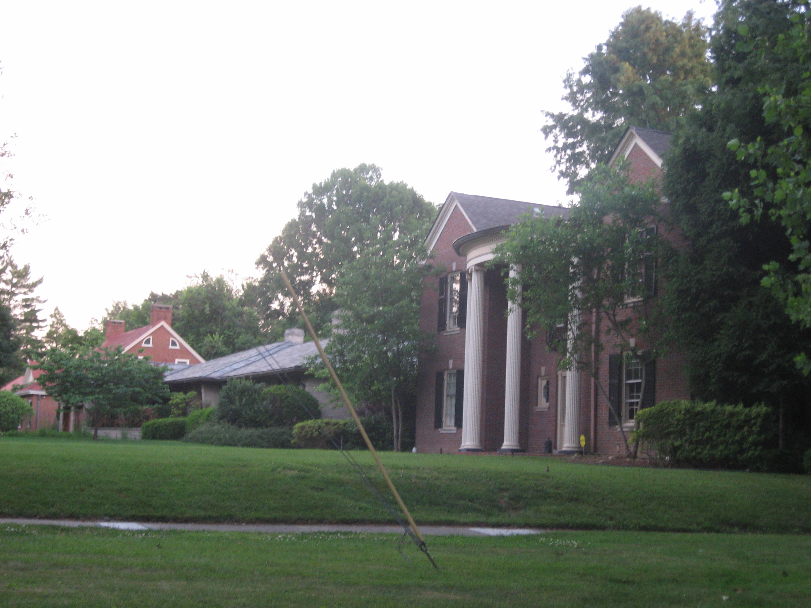 Houses on the southern side of Ashwood Drive just east of the Woodspoint Road intersection in Lexington, Kentucky, United States. This block is part of the Ashland Park neighborhood, a historic district that is listed on the National Register of Historic Places.